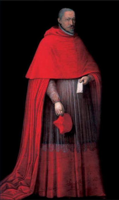 Portrait of Duke Marques Francisco Gómez de Sandoval y Rojas (c.1552-1625), Cardinal Holly Roman Church